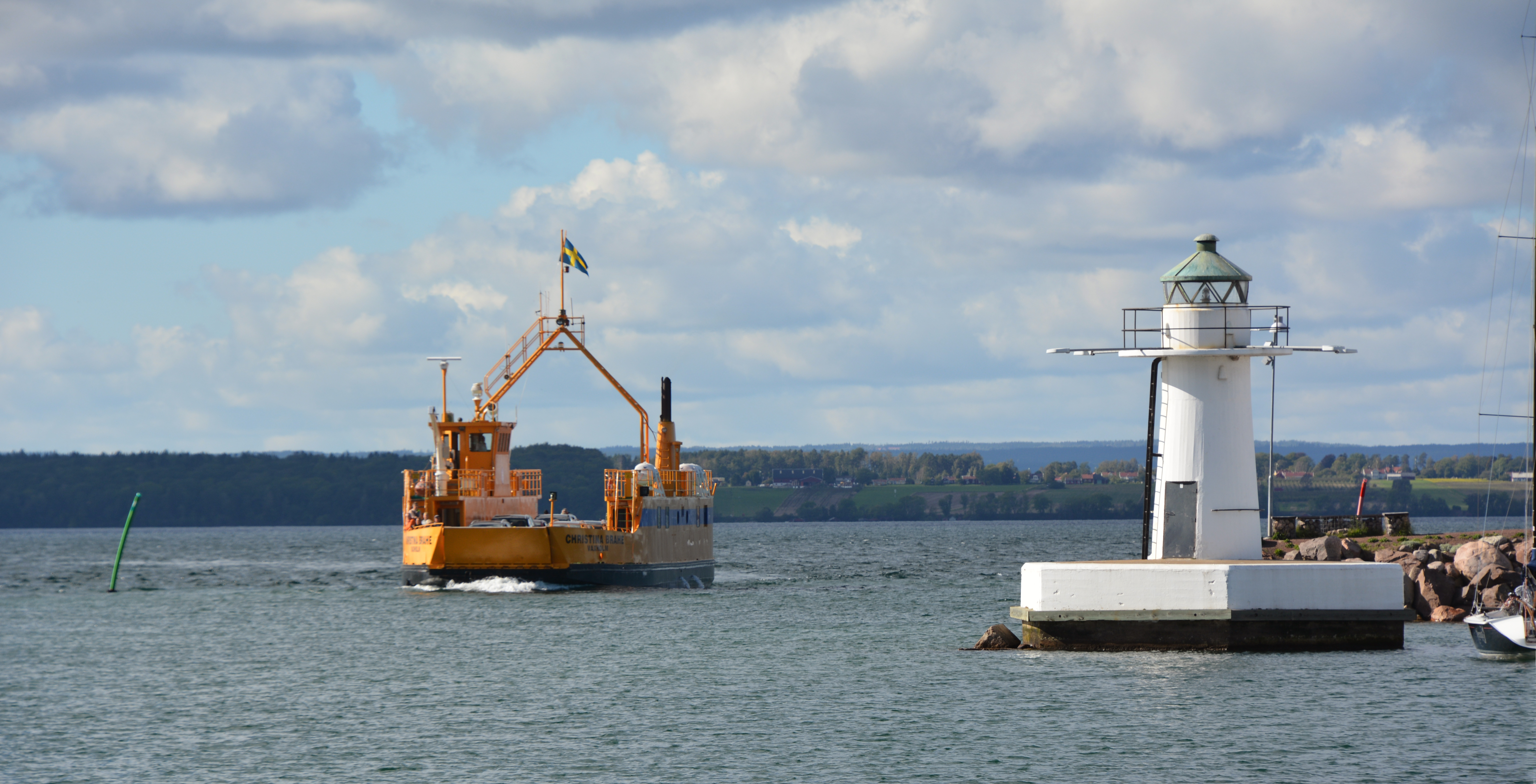 Ferry M/S Christina Brahe between Gränna and Visingsö, erntering Gränna harbour